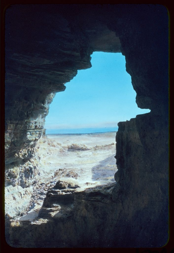 View of the Dead Sea from a Cave at Qumran